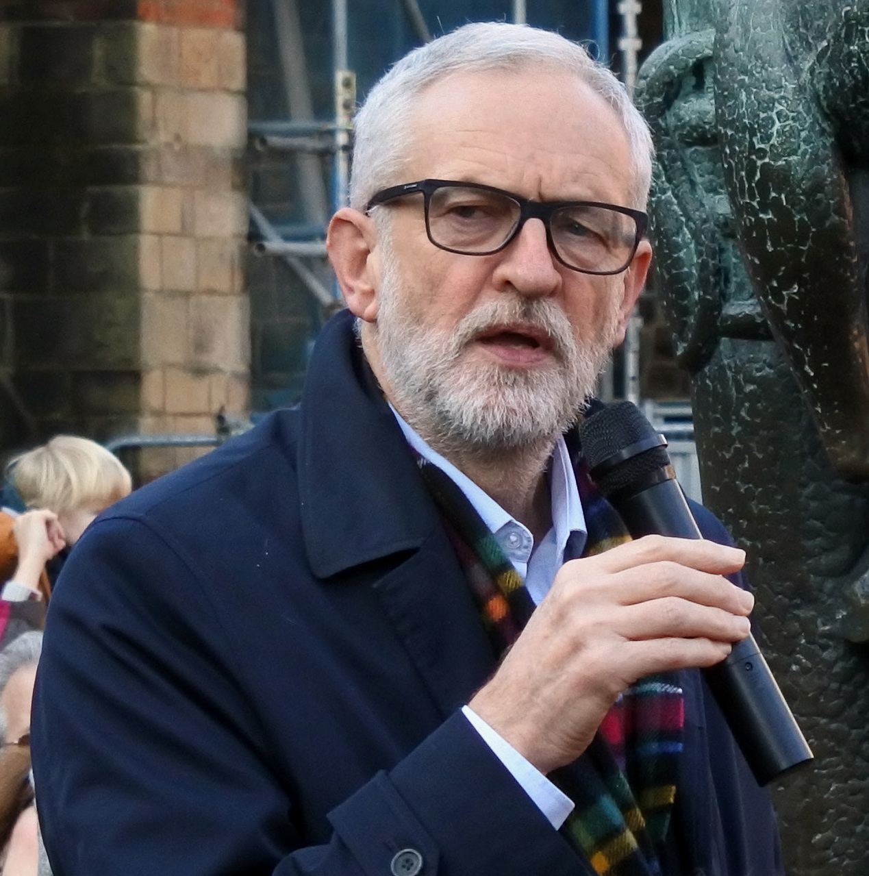 Labour leader speaking at an impromptu rally alongside the Robin Hood statue at Nottingham Castle; 4 December 2019.